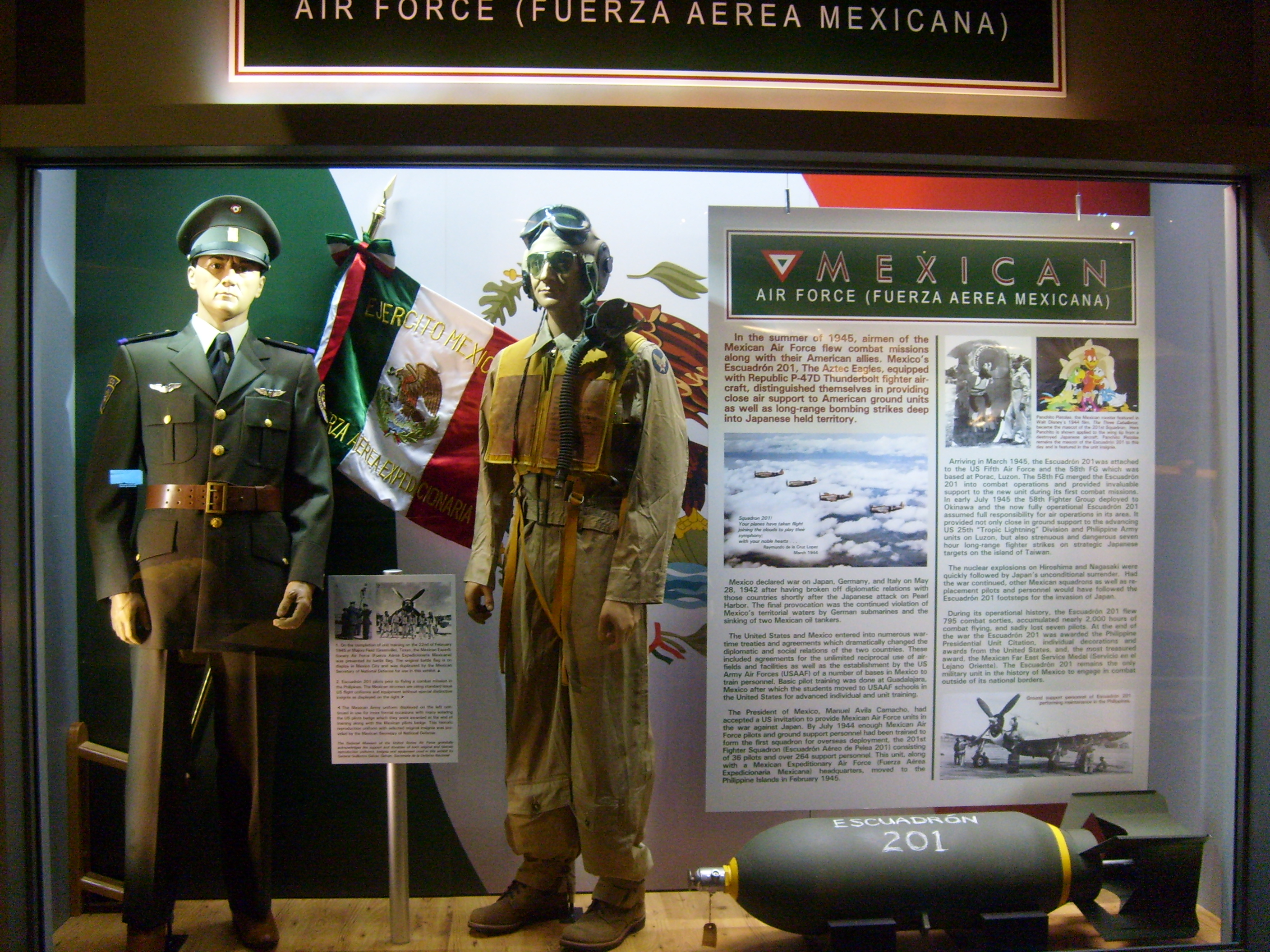 Display of the uniforms of the Escuadron 201 at The National Museum of the United States Air Force